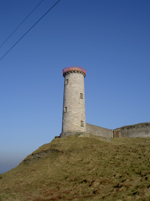 The Front Lighthouse, Wicklow Head. The second of the 2 lighthouses that were originally built on Wicklow Head in 1781. The 2 lights from Wicklow Head helped to distinguish Wicklow Head from Howth Head to mariners. Neither of the original 2 lighthouses are now active.